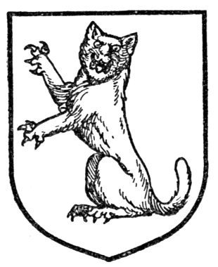 Fig. 335.—Cat-a-mountain sejant guardant erect.